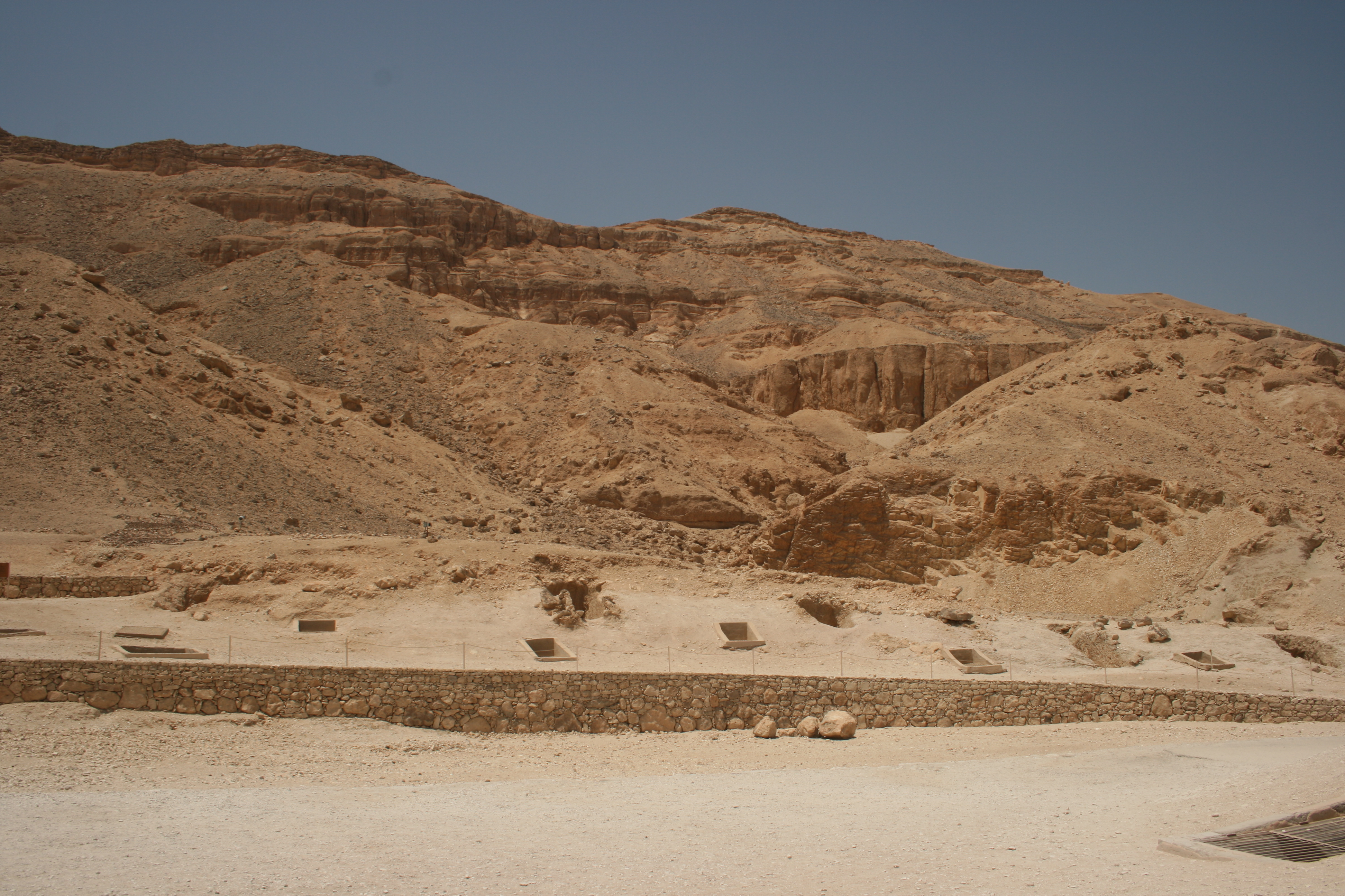 View of Valley of the Queens, near Luxor, Egypt